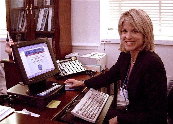 Paula Zahn visiting the Pentagon May 31, 2002, to sign a virtual Thank You Note to America's troops on